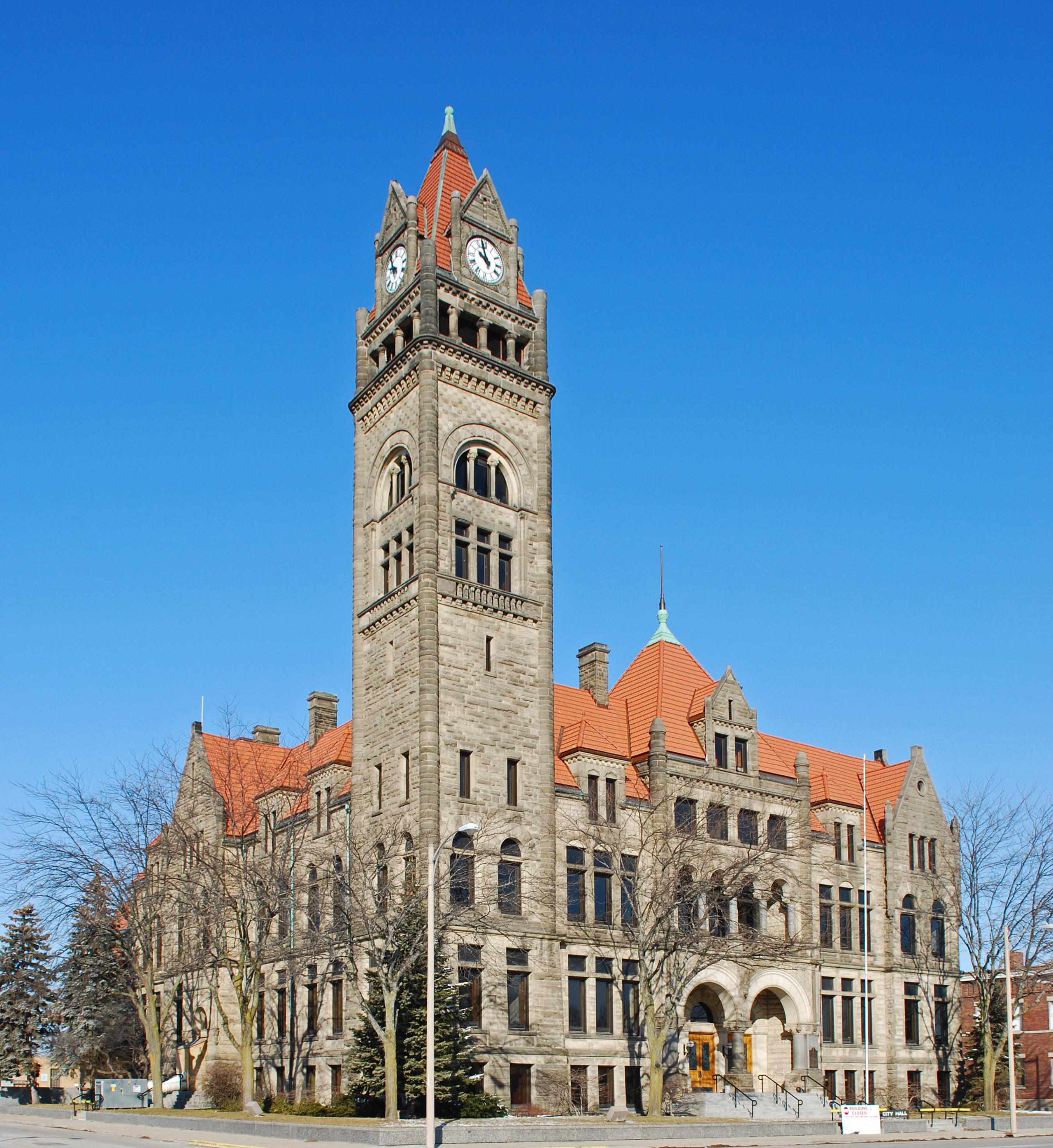 City Hall — Bay City, Michigan. Romanesque revival style stone building on the National Register of Historic Places.